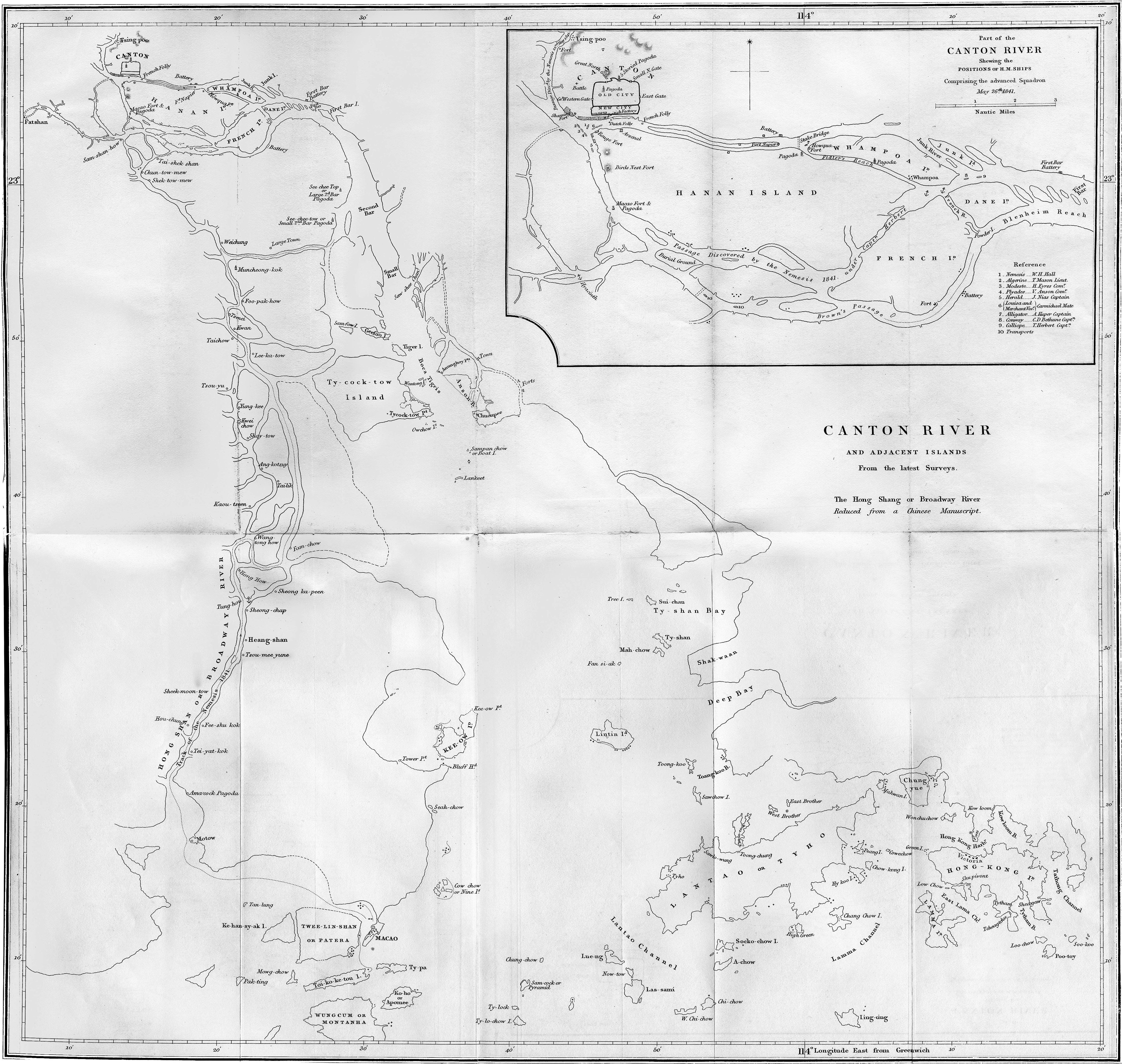 Map of the Canton River and adjacent islands. The inset shows the position of British ships comprising the advanced squadron on 26 May 1841.